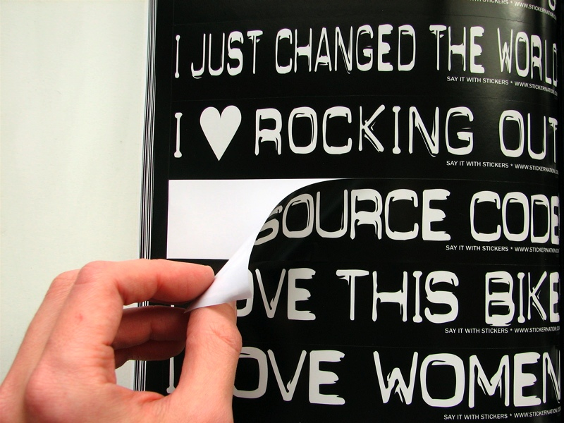 From the book "Sticker Nation" by Srini Kumar, reviewed at .